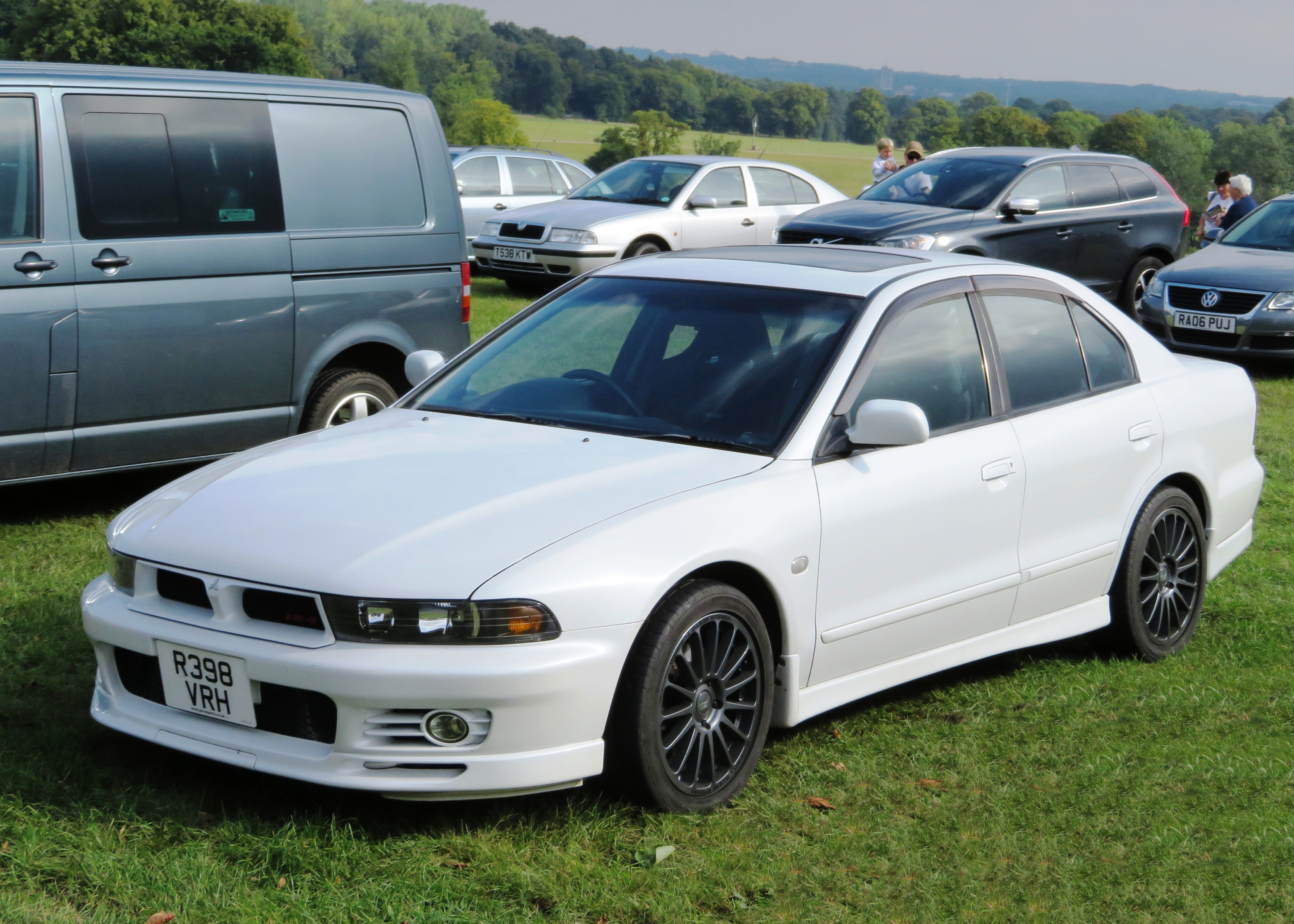 Mitsubishi Galant VR-4 mfd 1998 but registered for UK road use March 2015